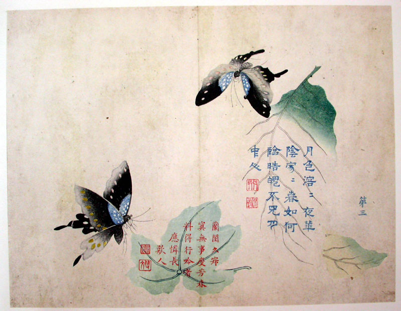 Two poems written by Zhang Junrui to Yingying and from Yingying to Zhang Junrui, from Min Qiji’s album „The Romance of the Western Chamber“